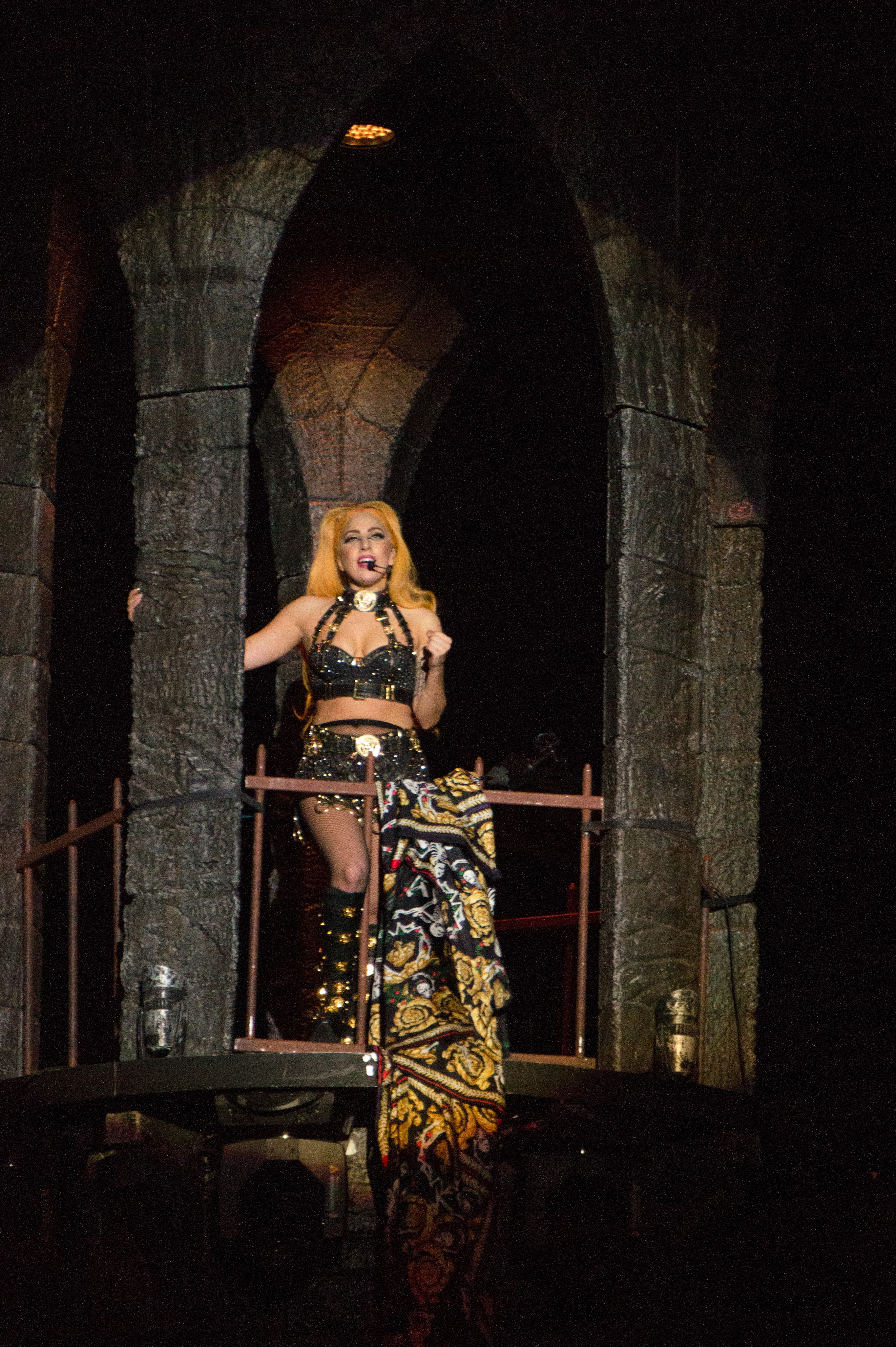 Lady Gaga performing "The Edge of Glory" druing The Born This Way Ball Tour in Perth, Australia.